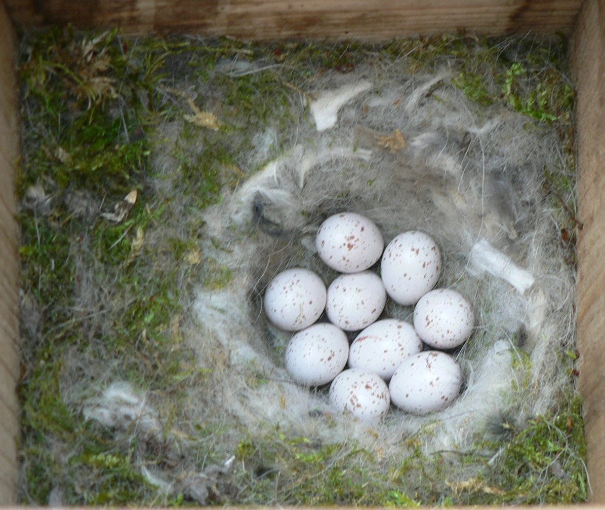 Barátcinege fészke mesterséges fészekodúban (Pilisszentiván, 2011)